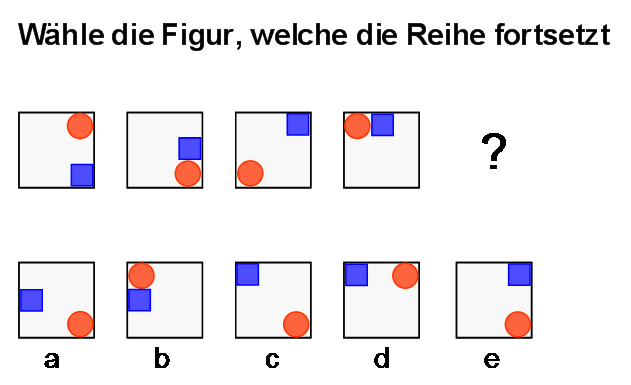 This is an example of an item from a cognitive ability (intelligence) test. It was constructed by substantially modifying an item from a widely used test. The item is designed to assess the ability to recognize figural series. The correct answer is d.